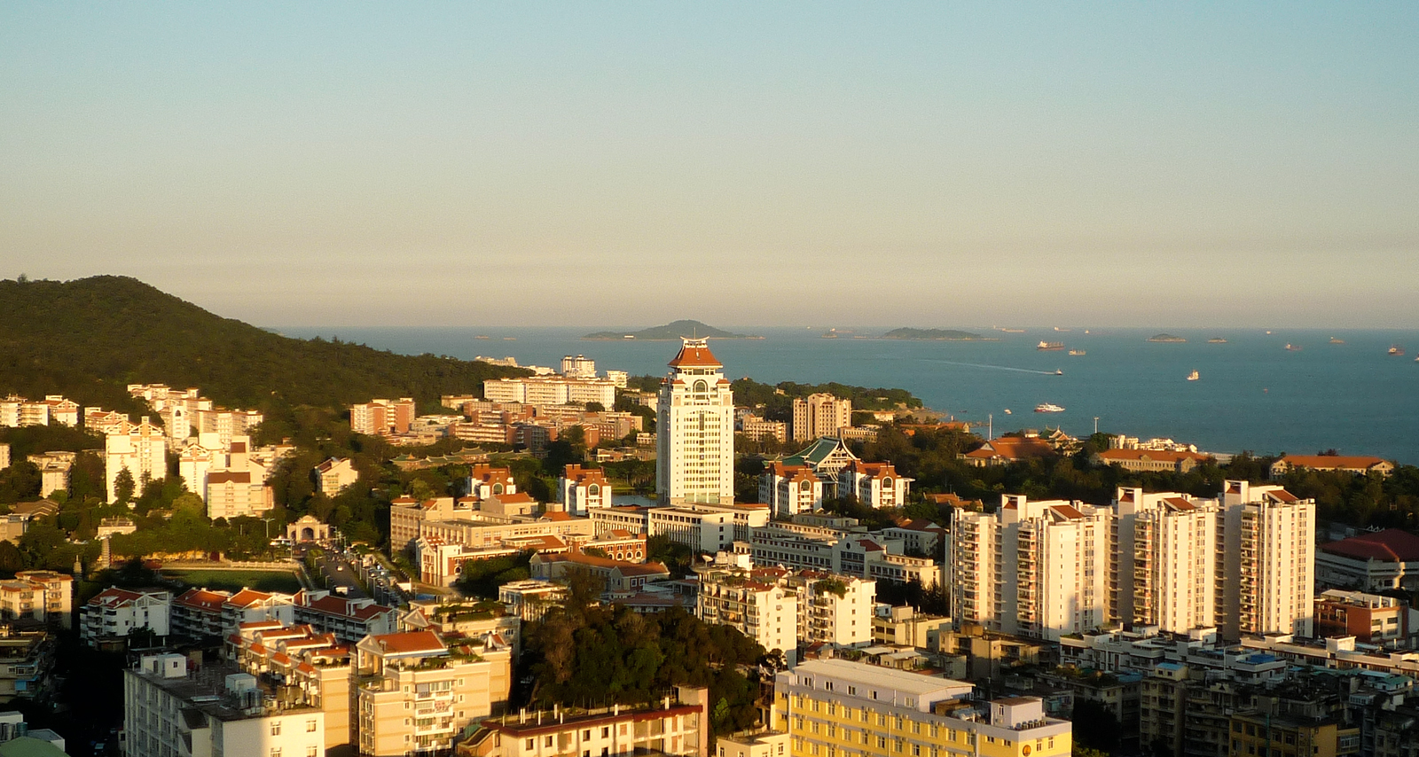 the image was taken on July 2nd, 2012